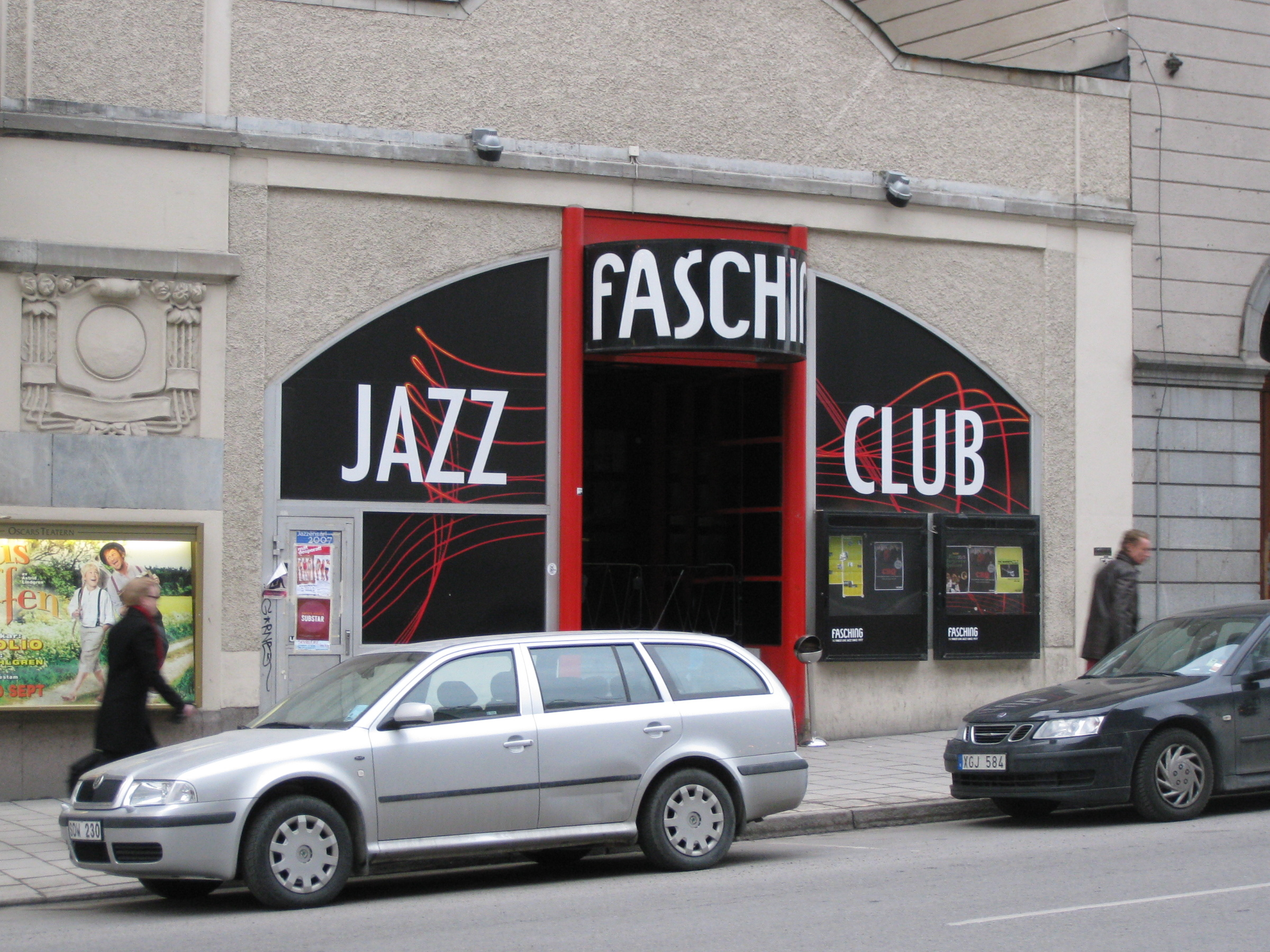 The jazz-club Fasching in Stockholm.